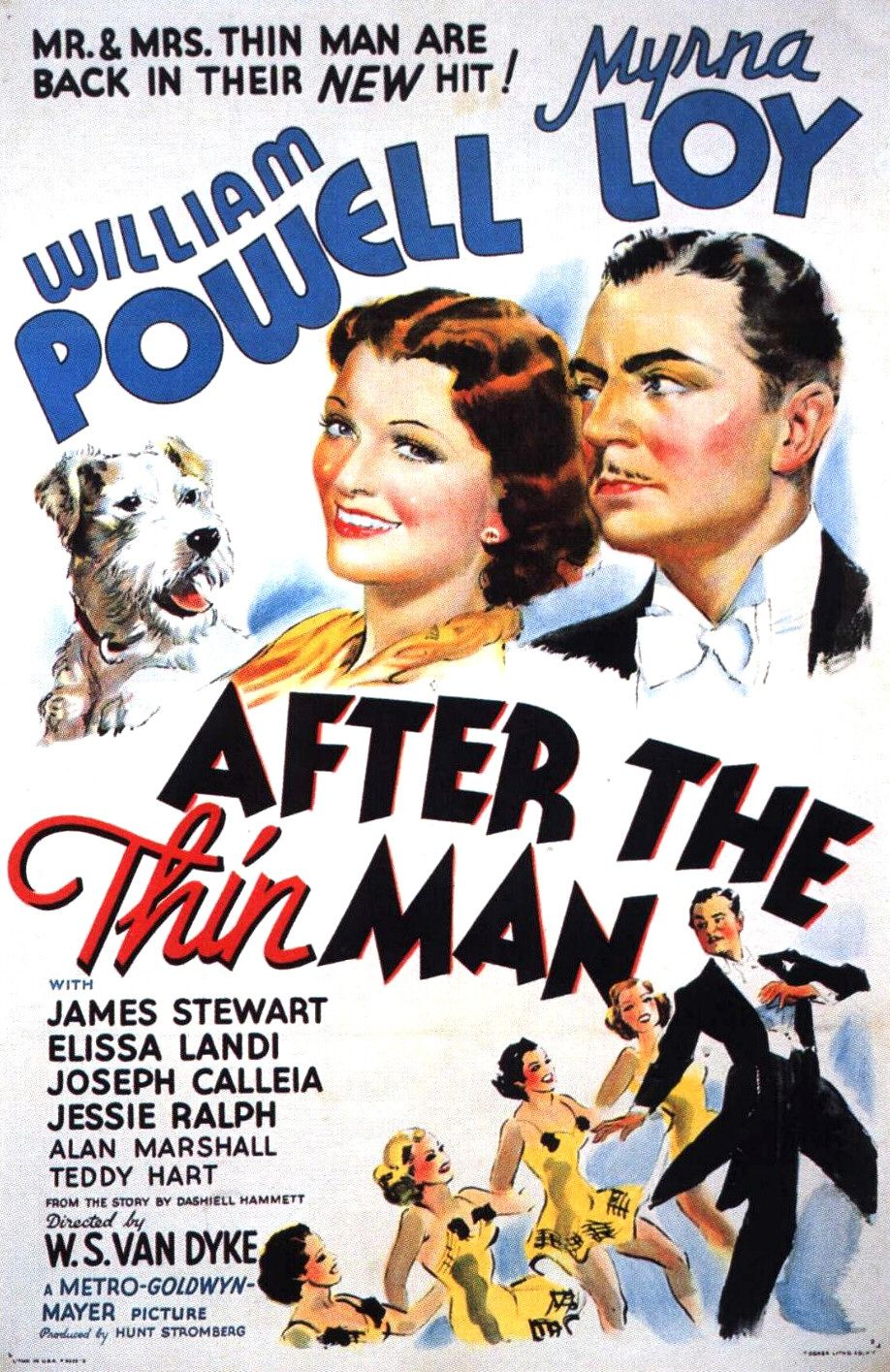 Film poster for After the Thin Man. The item has no copyright markings on it as can be seen in the links above. At lower left is Litho in USA-at lower right-Tooker Litho, NY-the name of the company who printed the poster